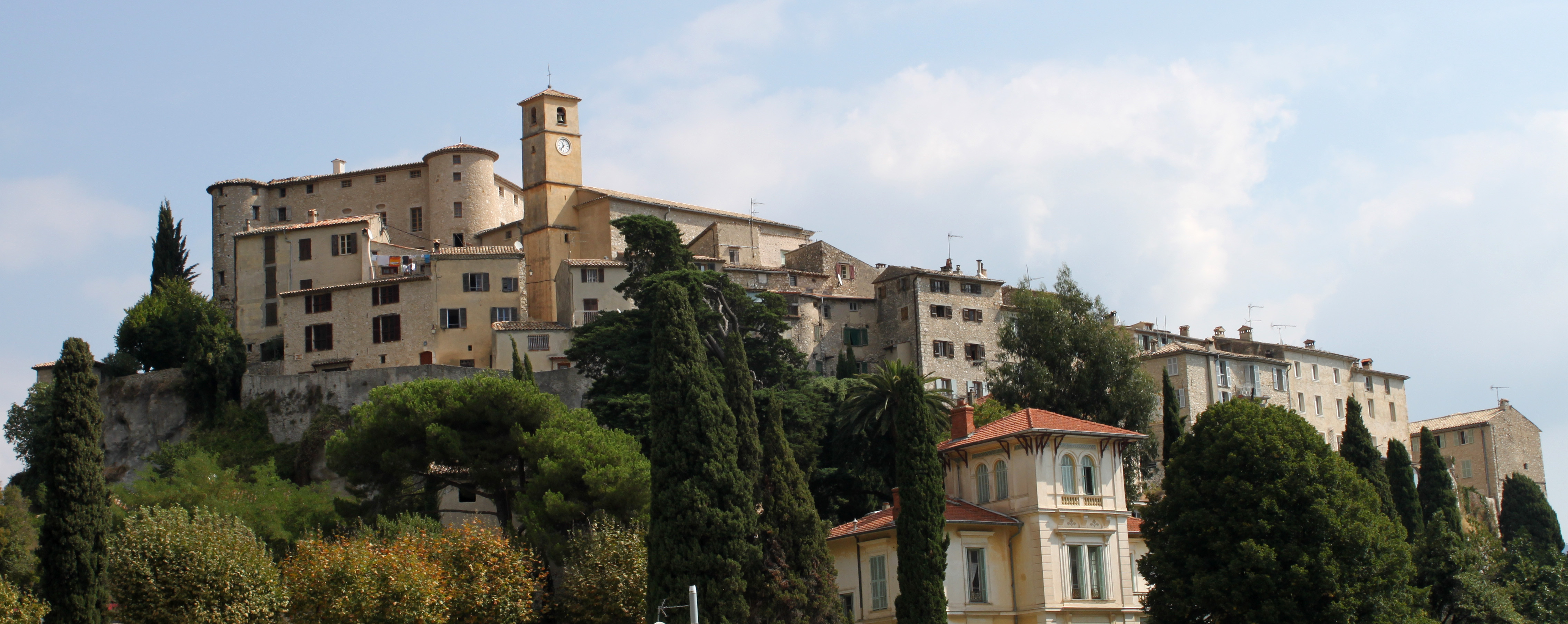 Carros village, Alpes-Maritimes, France